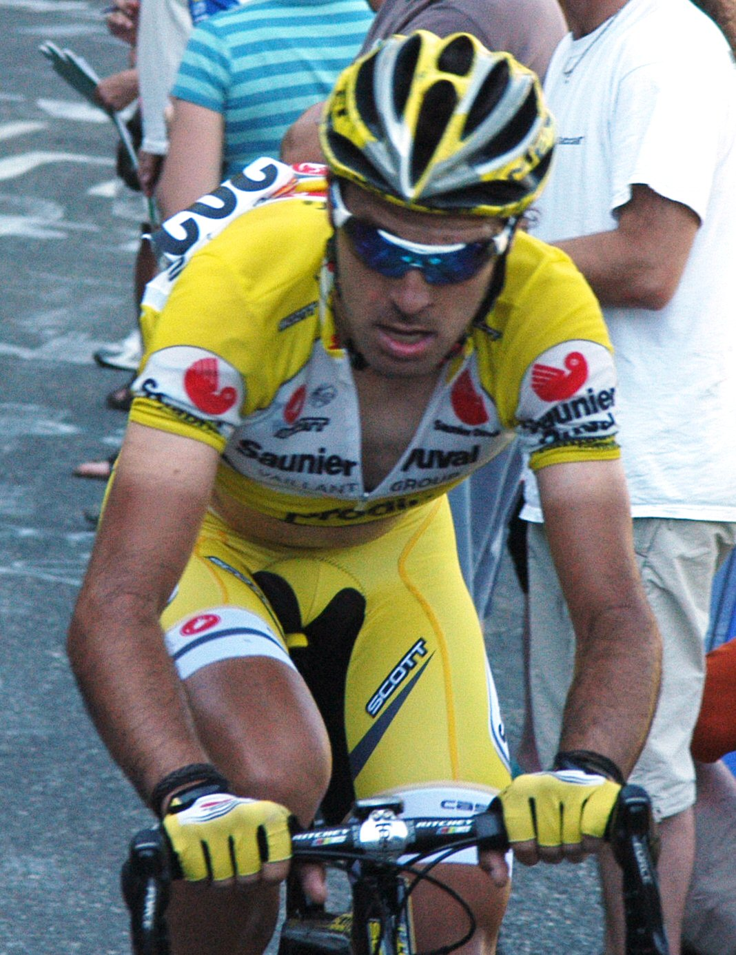 Iker Camaño Ortuzar at stage 7 of the Tour de France 2007 on the Col de la Colombière.